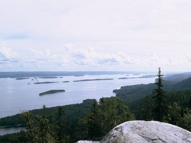 Mount Koli, Finland